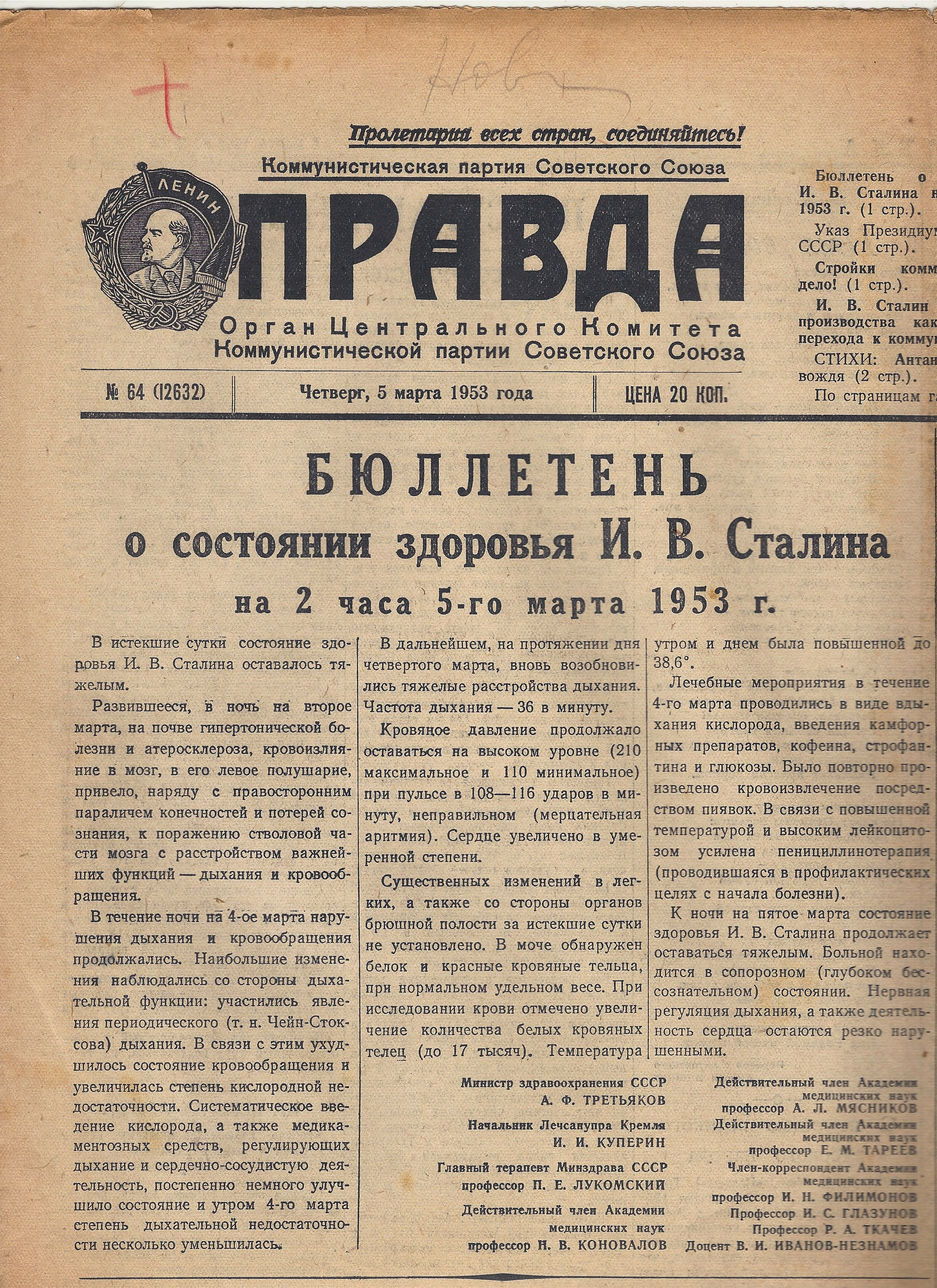 The report about Stalin condition four days after the stroke (Mar 01) and seven hours before he died.